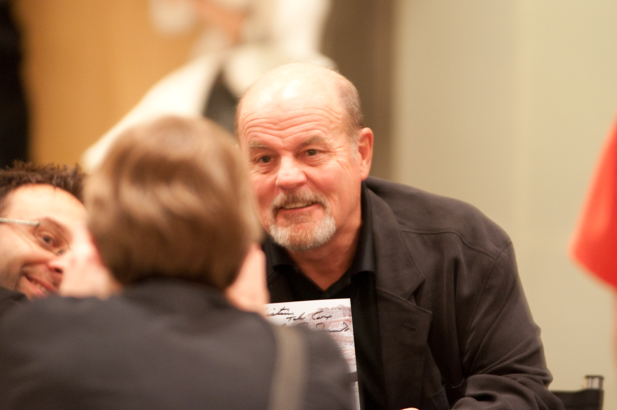 Actor Michael Ironside on December 5, 2009